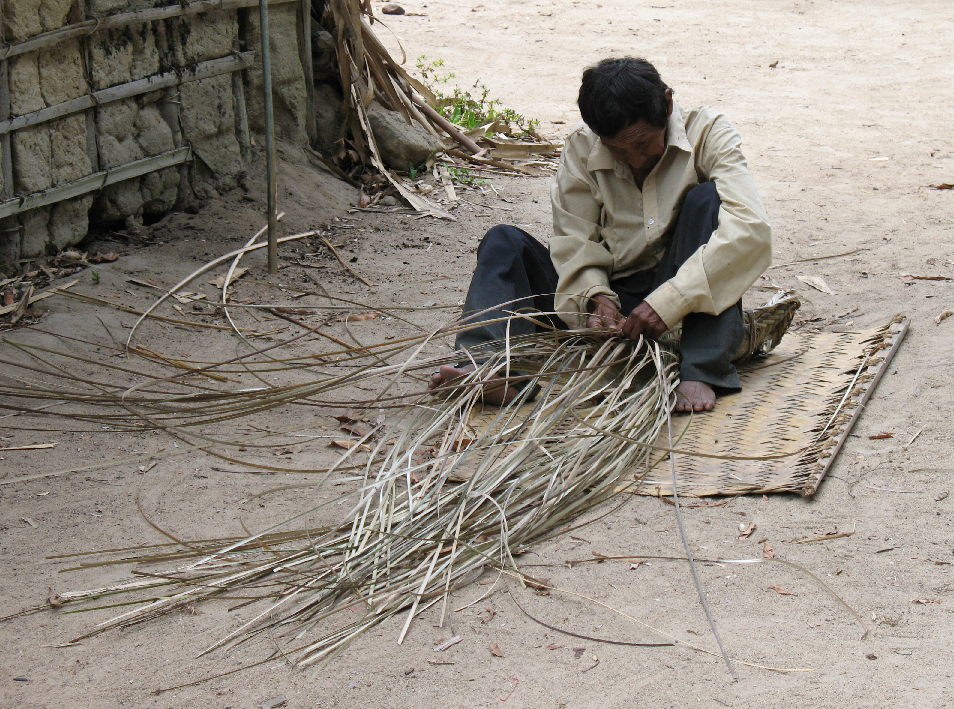 Piaroa Indian at work, Venezuela.